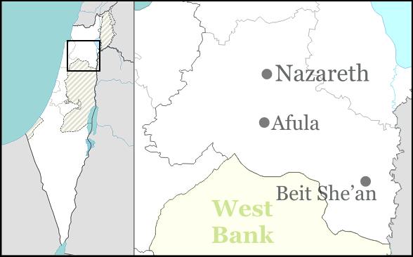 Jezreel sub-district of the North District of Israel for pushpin maps.